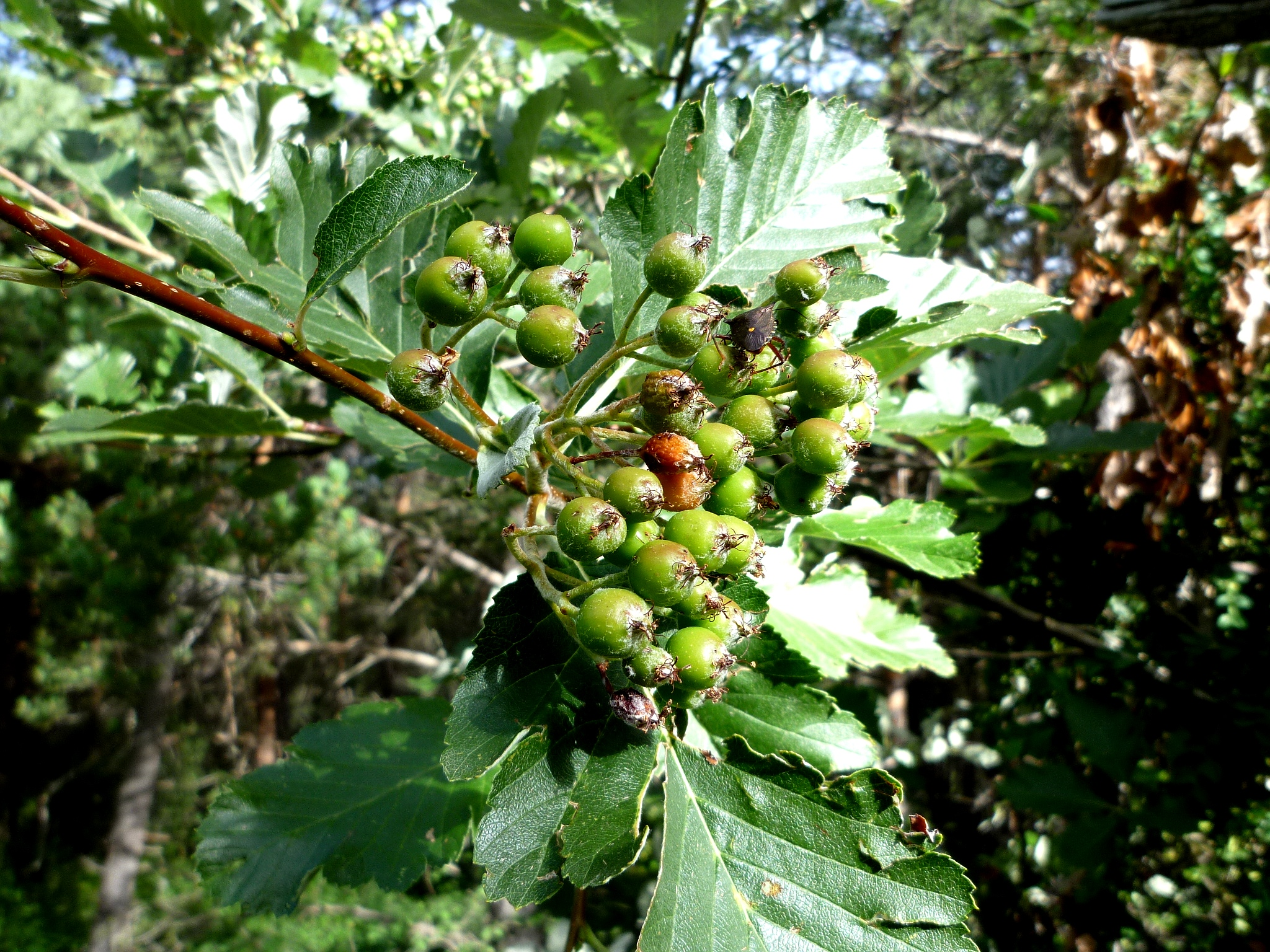 Sorbus aria. In la Bòfia, Tuixén (Alt Urgell - Catalunya). To 1.590 m. altitude